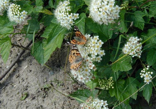 Physocarpus malvaceus with two butterflies